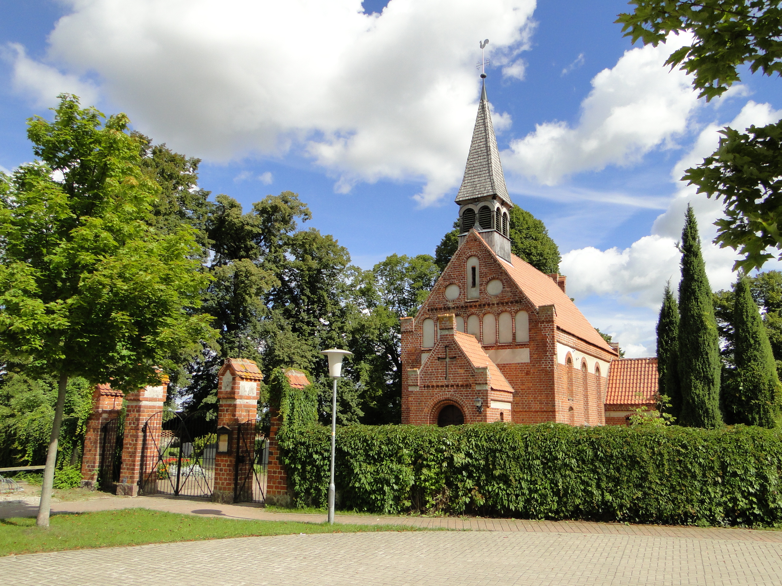 Church in Marihn, district Müritz, Mecklenburg-Vorpommern, Germany